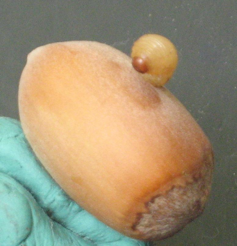 Curculio nucum larf